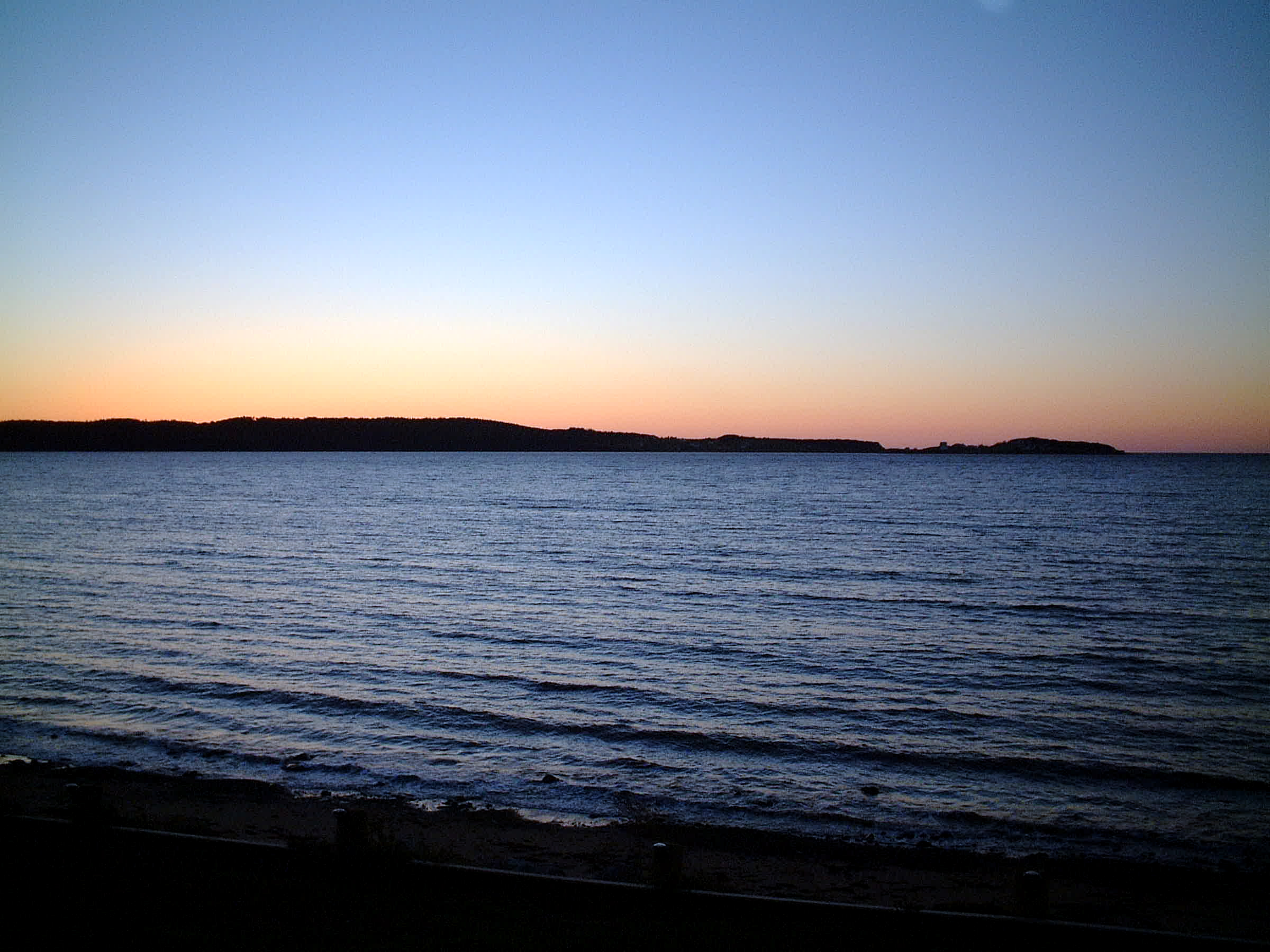 This Photo was taken by Lee Martin on September 25th, 2002. This Picture is a fall dusk shot looking west to Port Hood Island.